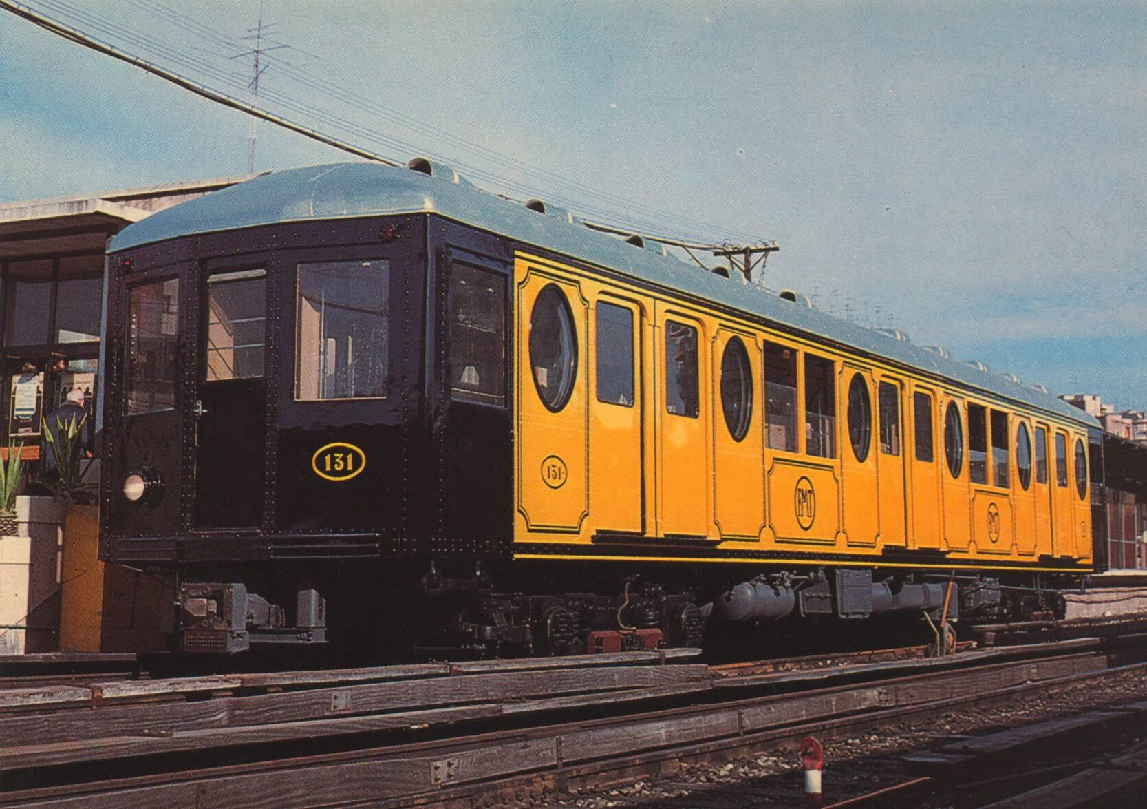 Train of the serie 100, Ferrocarril Metropolità de Barcelona.